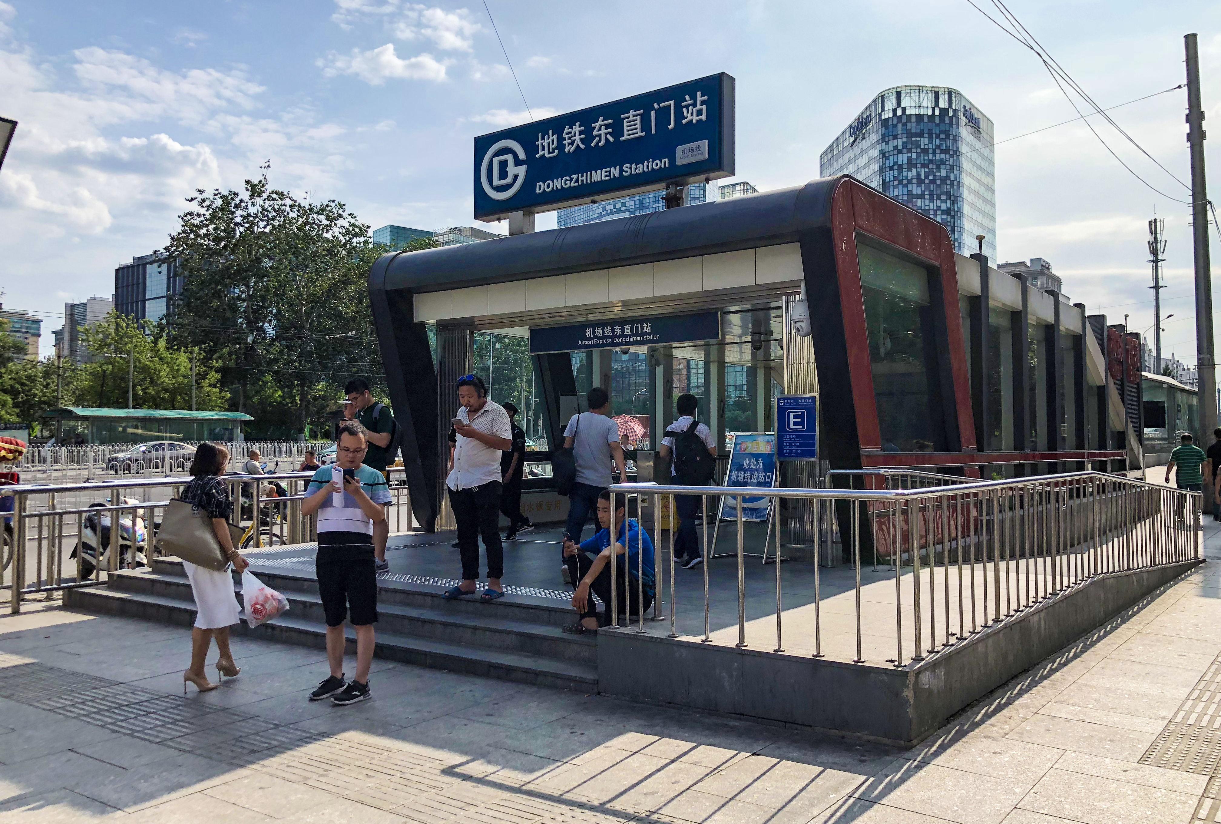 Specified "Airport Line".